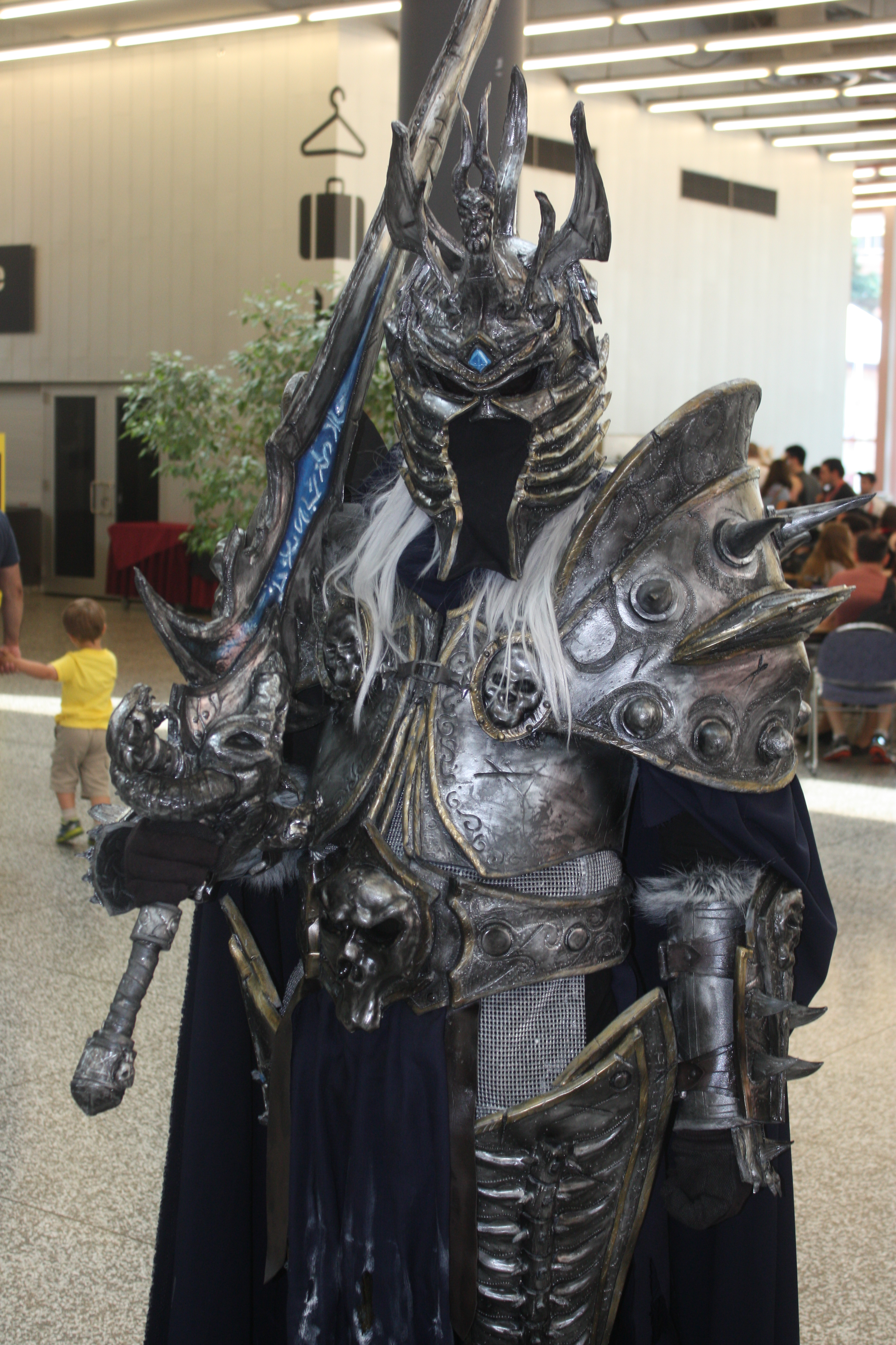 Cosplay on day three of Montreal Comiccon 2015.